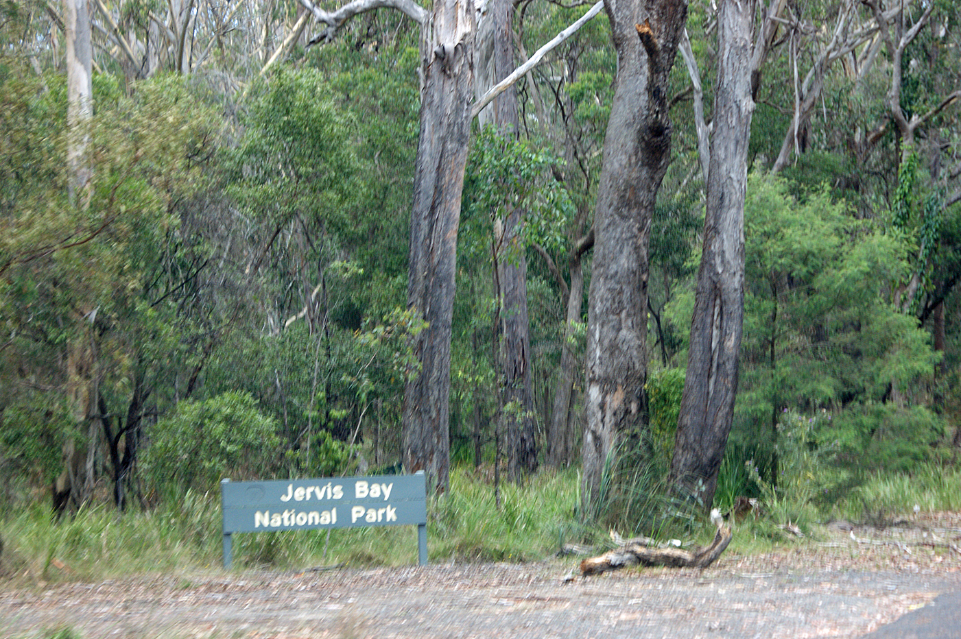 Jervis Bay National Park NSW; Northern section on the road to Currarong